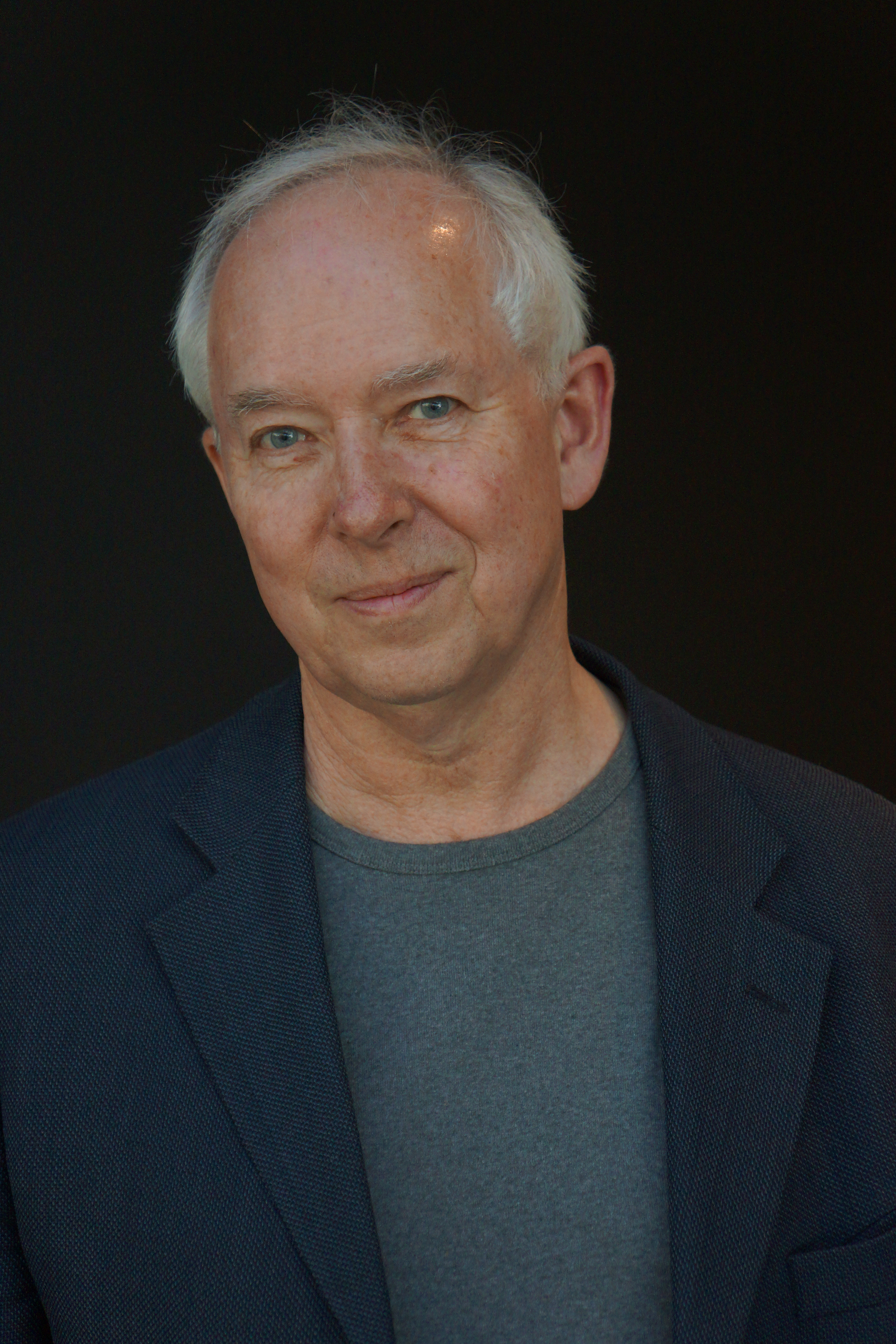 Bill Manhire in Frankfurt in October 2012.